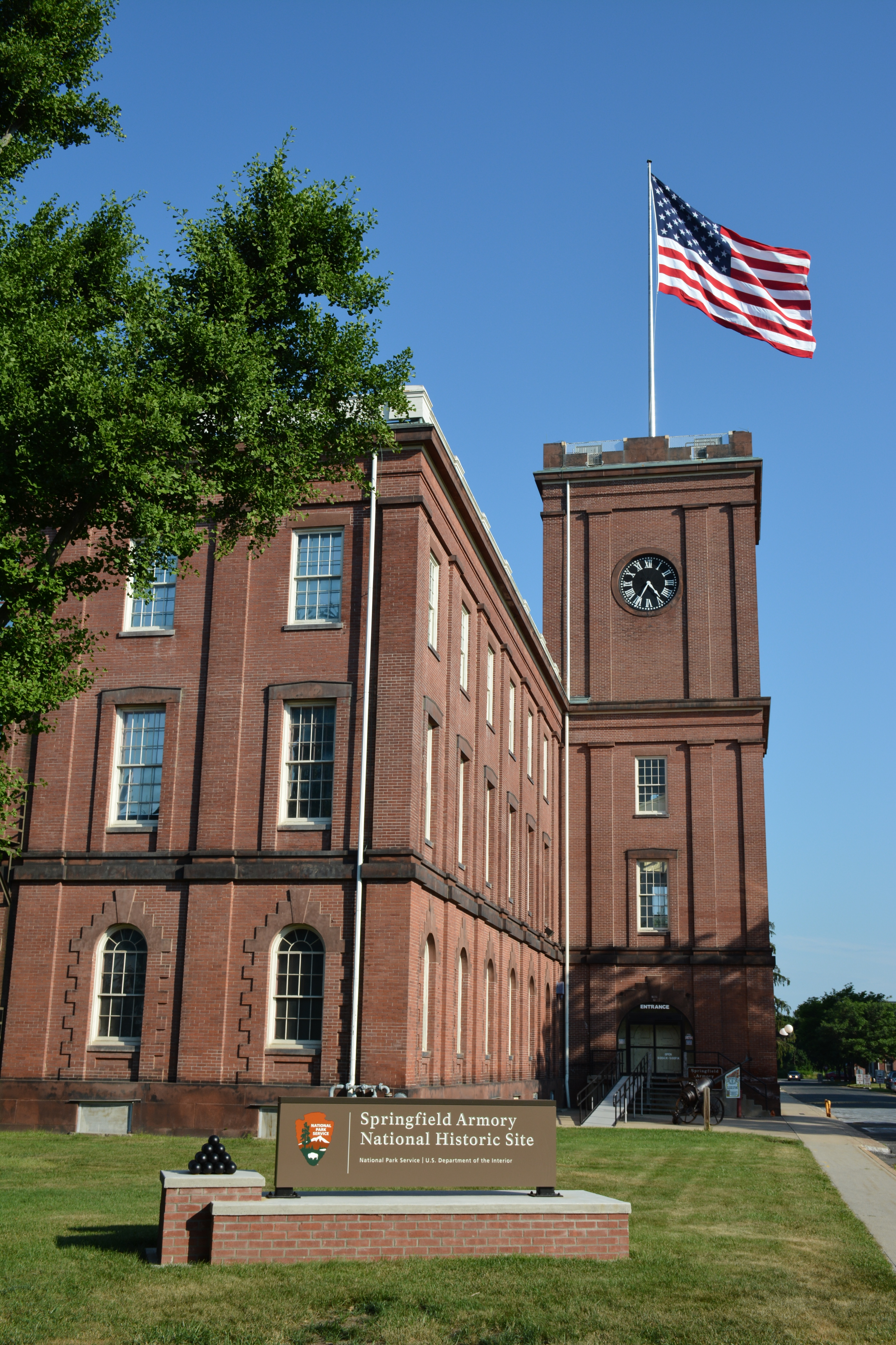 The main entrance to the Springfield Armory museum in the arsenal building.